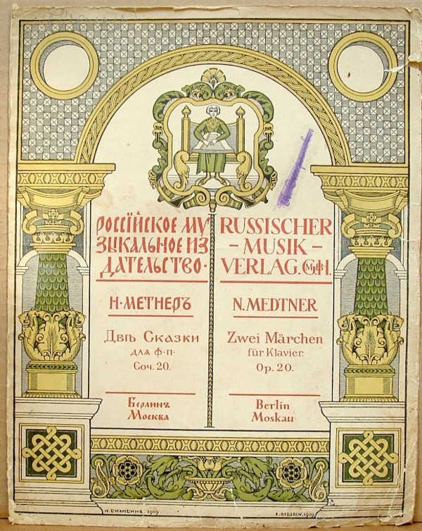 Bilibin, Ivan) Medtner, Nikolai Sheet Music DVE SKAZKI (Op. 20) Berlin/Moscow: RMI, [c. 1909] Music by Nikolay Metner. Cover by Jean Bilibine. Folio (13-1/2" x 10-1/2") softcover.